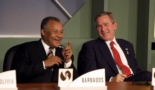 President George W. Bush talks with the Prime Minister Owen Arthur of Barbados during the inaugural ceremony of the Special Summit of the Americas in Monterrey, Mexico, Jan. 12, 2004. source